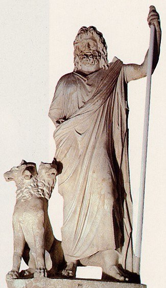 Statue of Hades with Cerberus